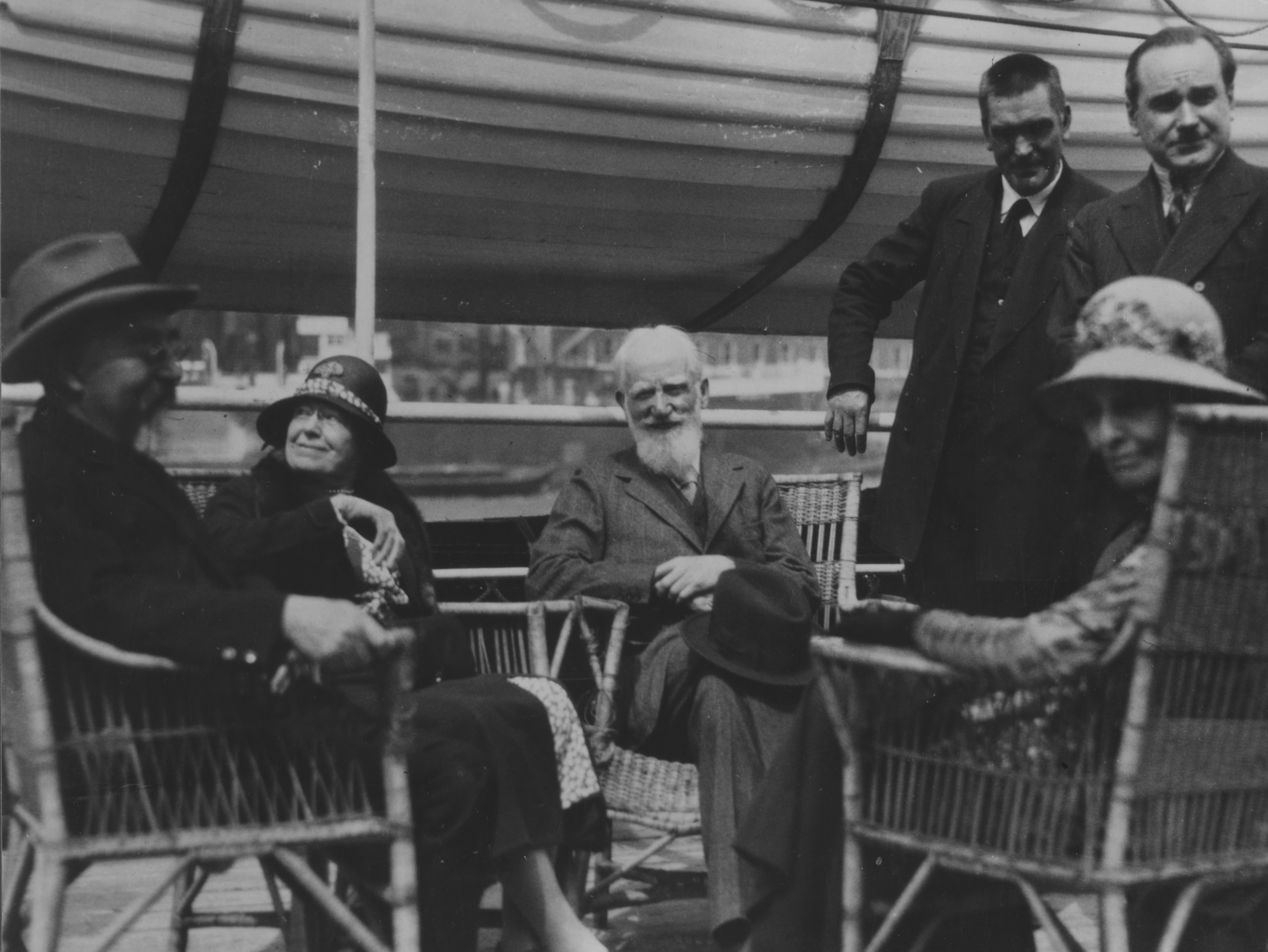 Charlotte and George Bernard Shaw seated centre, the Webbs seated either side. Leaving for a trip to Russia. IMAGELIBRARY/68 Persistent URL